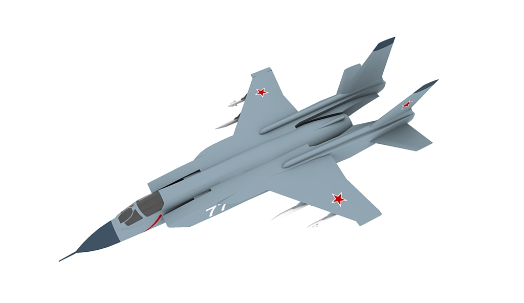 Yakovlev Yak-141 3D model made in SketchUp